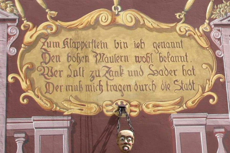 the klapperstein of Mulhouse